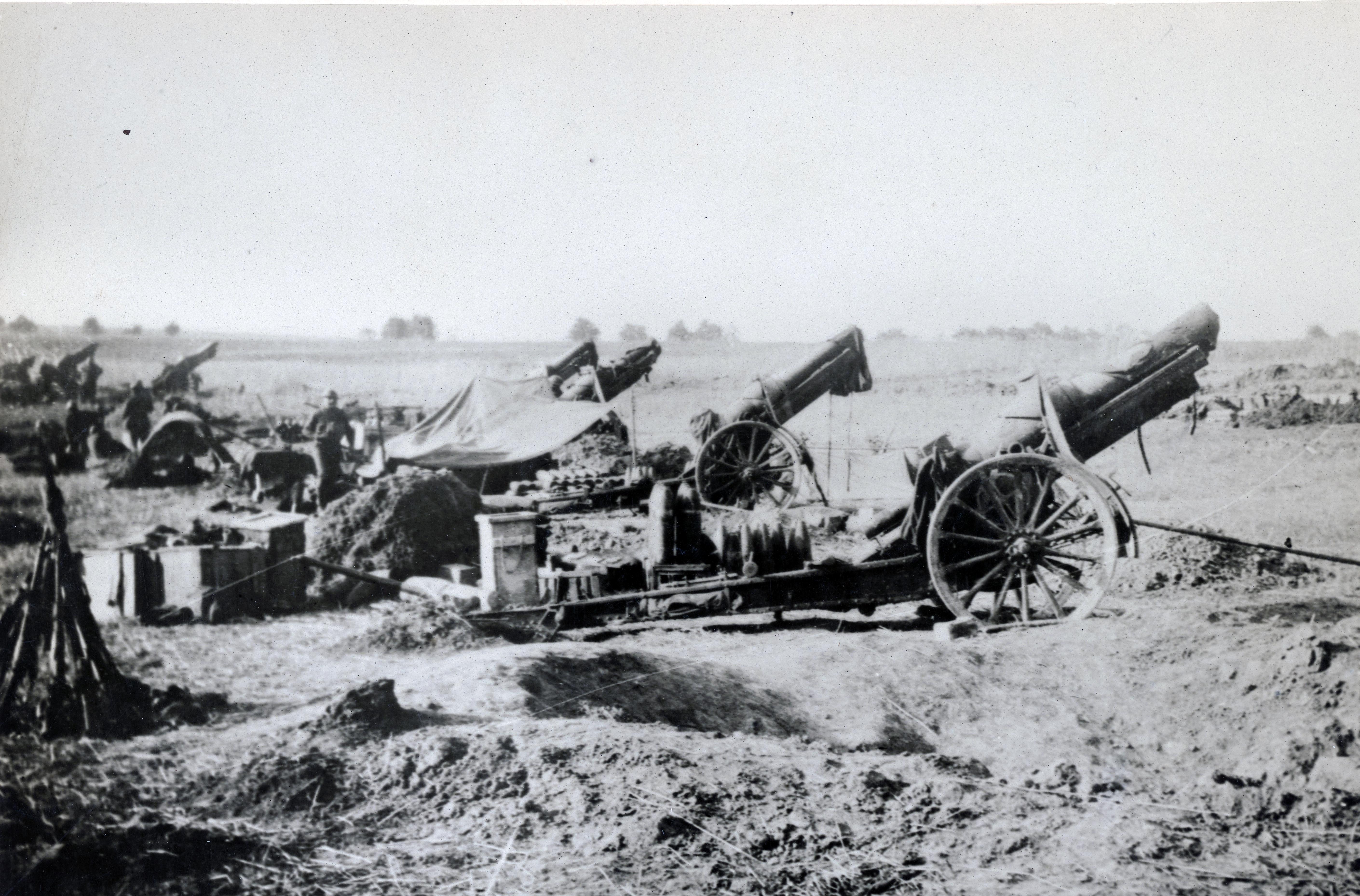 Scope and content: Original Caption: American heavy artillery which aided in the capture of Soissons. American battery of 155 m/m heavy artillery guns, occupying what was formerly enemy territory just south of Soissons and which aided in the capture of that city. Photographer: Underwood and Underwood